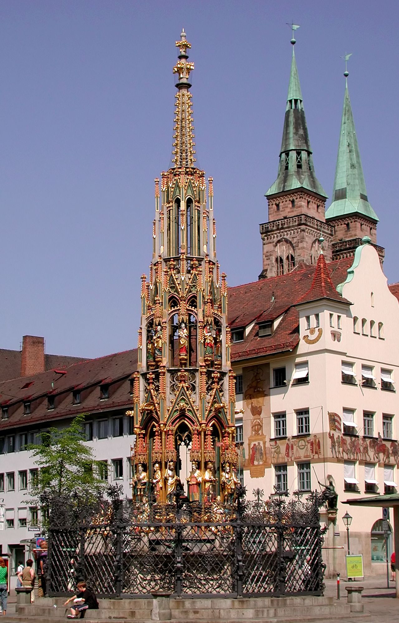 Picture of the Schöner Brunnen on the Hauptmarkt in Nürnberg.